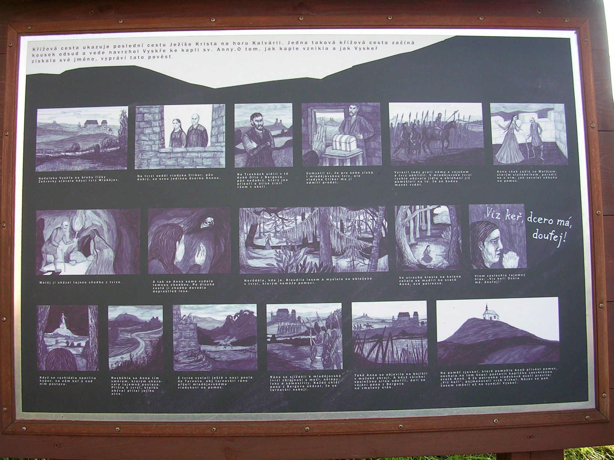 Vyskeř, Semily District, Liberec Region, the Czech Republic. The entry of Stations of the Cross at the Vyskeř Hill.